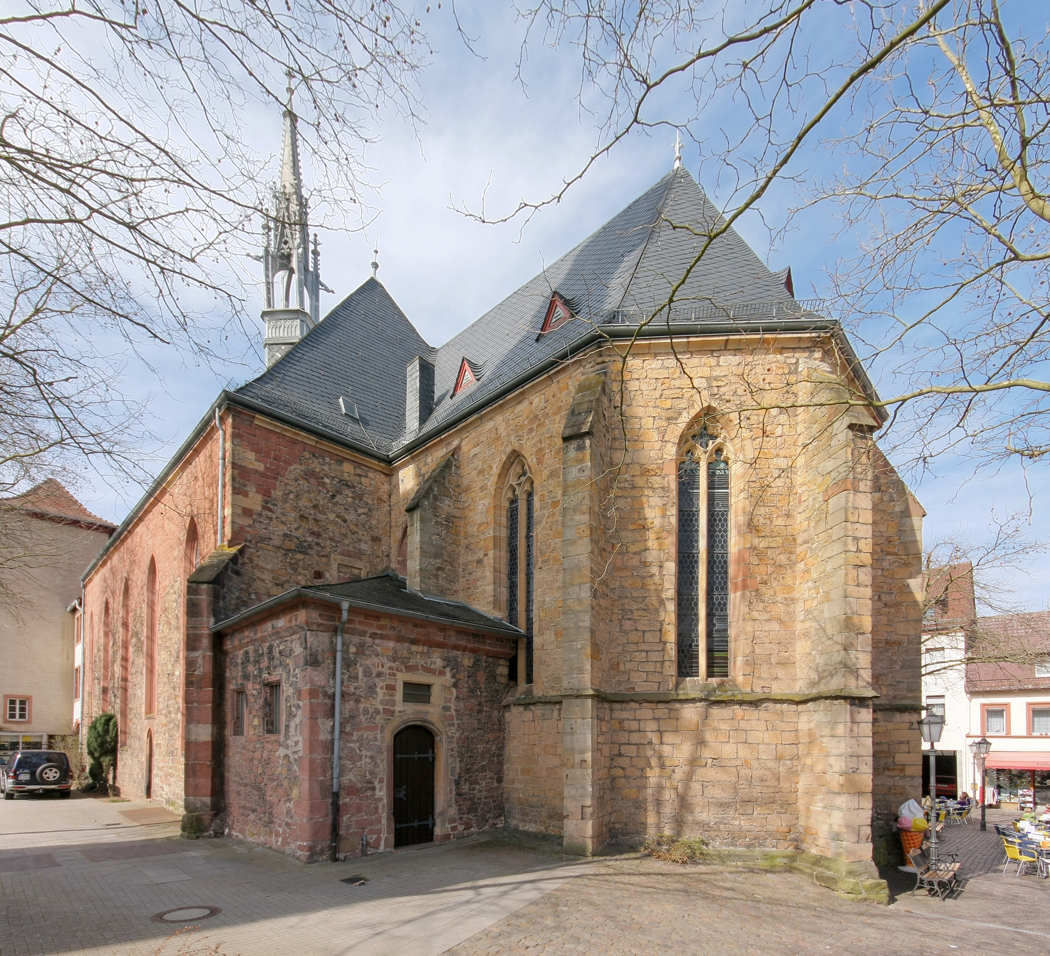 Market church Bad Bergzabern from south east NOTE: This image is a panorama consisting of multiple frames that were merged in software. As a result, this image necessarily underwent some form of digital manipulation. These manipulations may include blending, blurring, cloning, and color and perspective adjustments. As a result of these adjustments, the image content may be slightly different than reality at the points where multiple images were combined. This manipulation is often required due to lens, perspective, and parallax distortions.